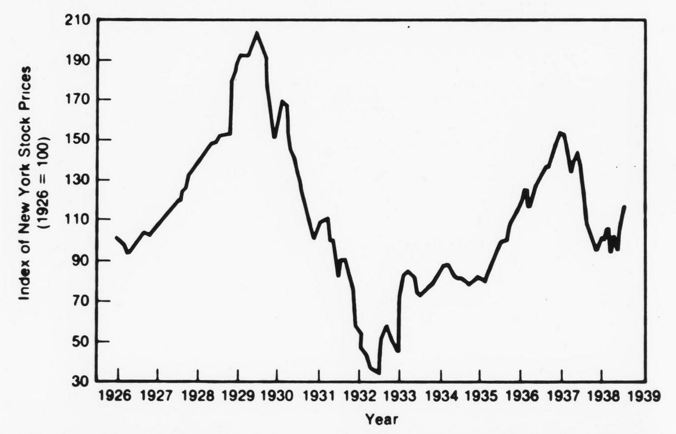 New York stock market index from 1926 to 1939